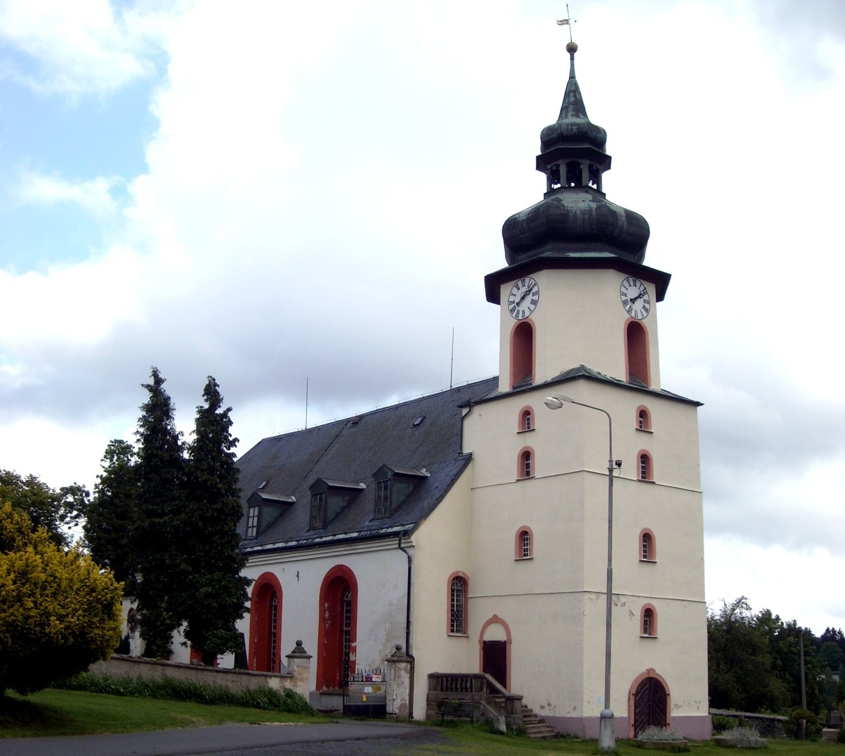 Hranice (Cheb District), evangelic church